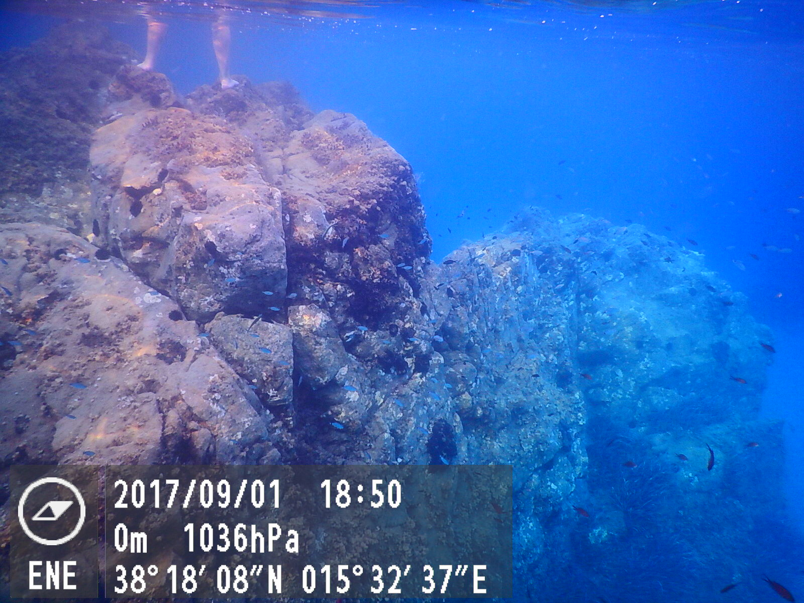 the natural cliffs of Acquarone (or Acqualadrone) a village of the city of Messina in Sicily, start just a couple of meters off the shore and thanks to the warm water of the Tyrrenian sea their snorkeling it's possible from april until the end of october. Their fauna include also crabs and sea urchins.